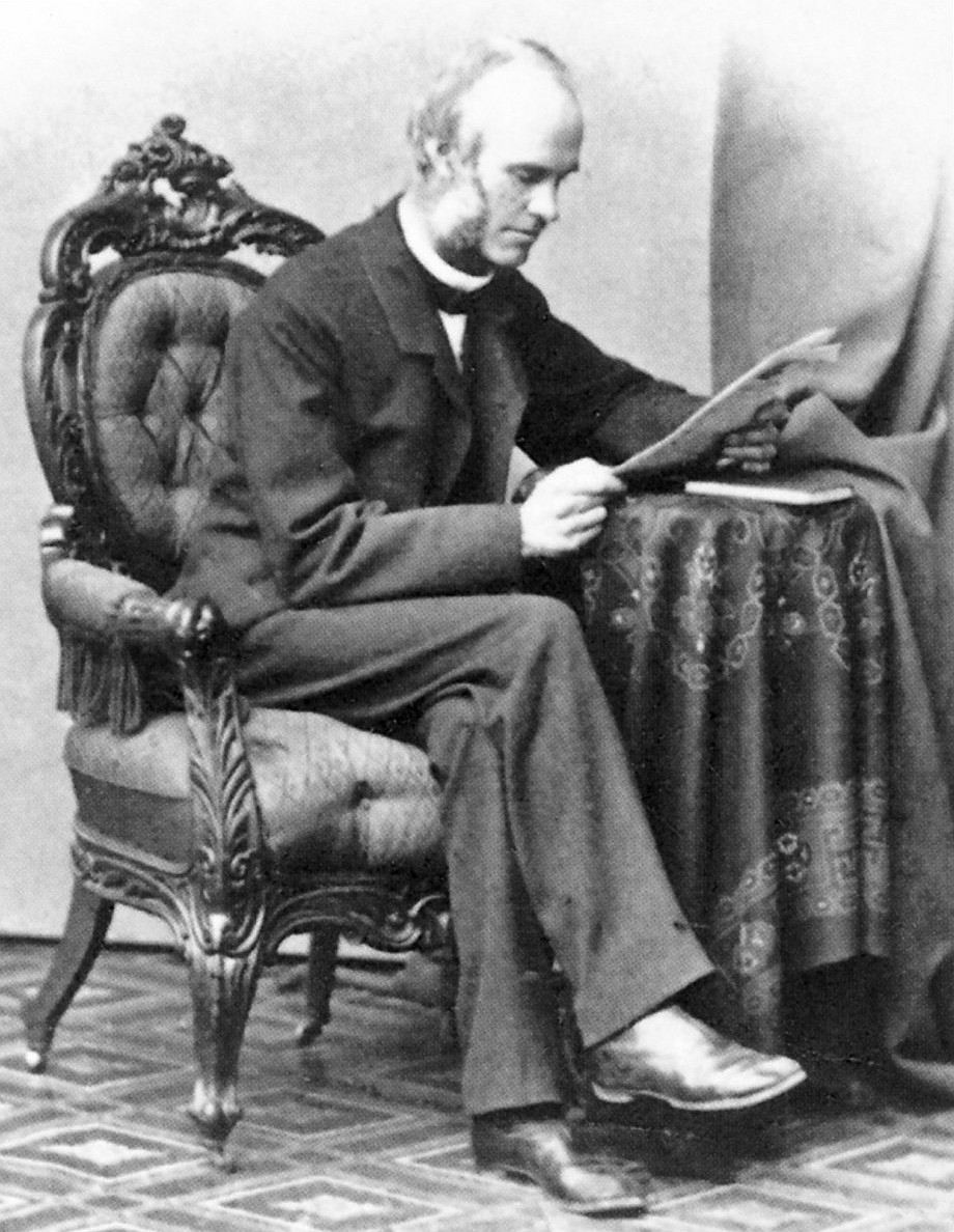 Henry Gill